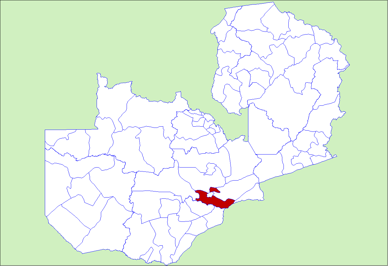 District locator in Zambia